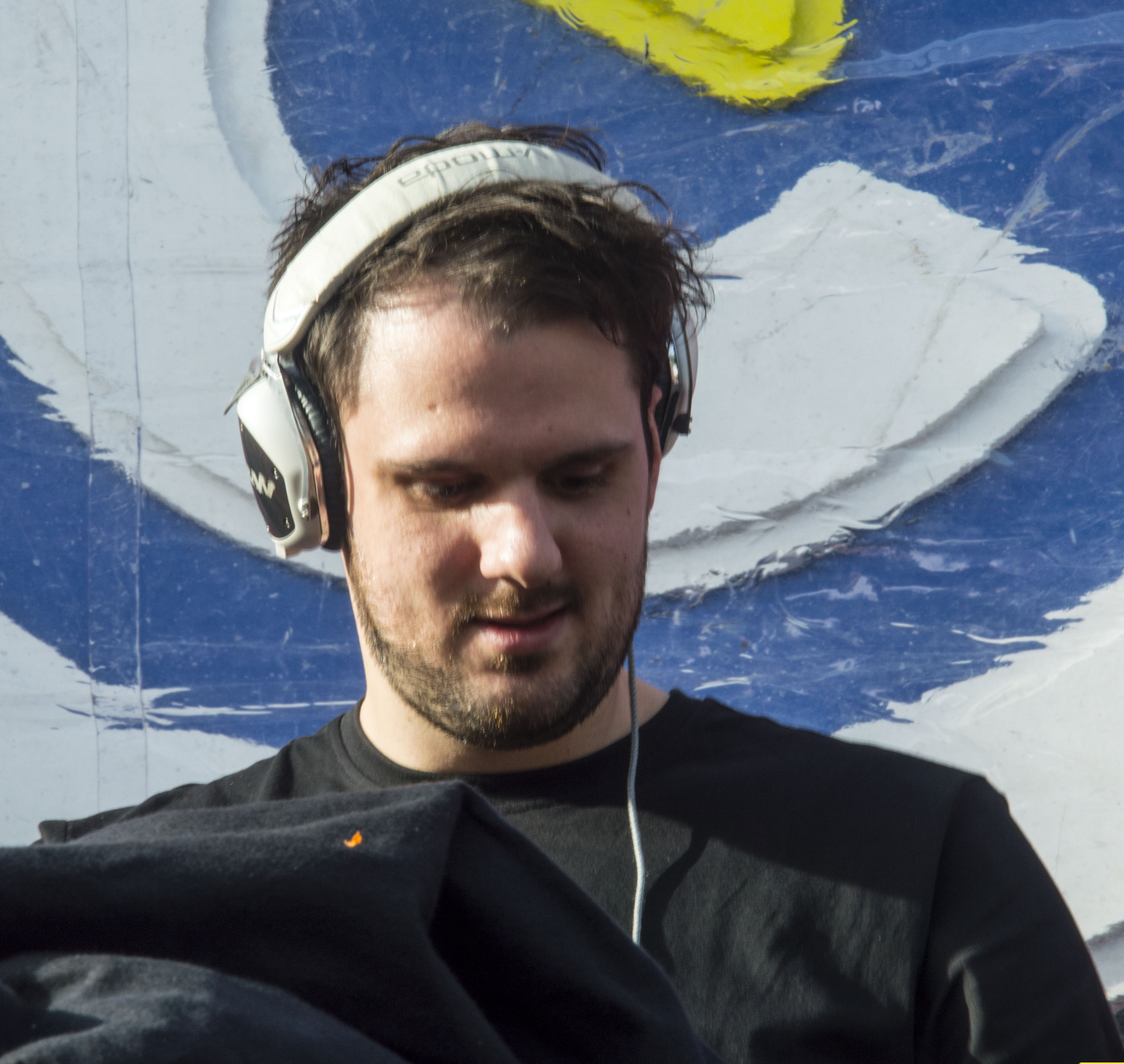 Wardt van der Haarst playing live at Breda Dance Music Festival.